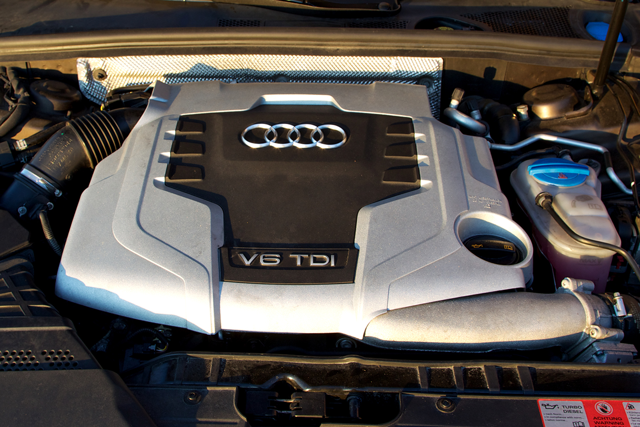 A 3.0 TDI V6 Diesel engine in an Audi Allroad Quattro